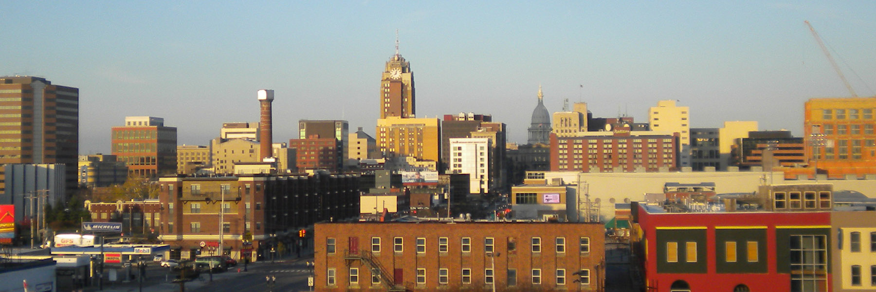 This is a skyline shot of Lansing, Michigan, from Michigan Avenue looking west.